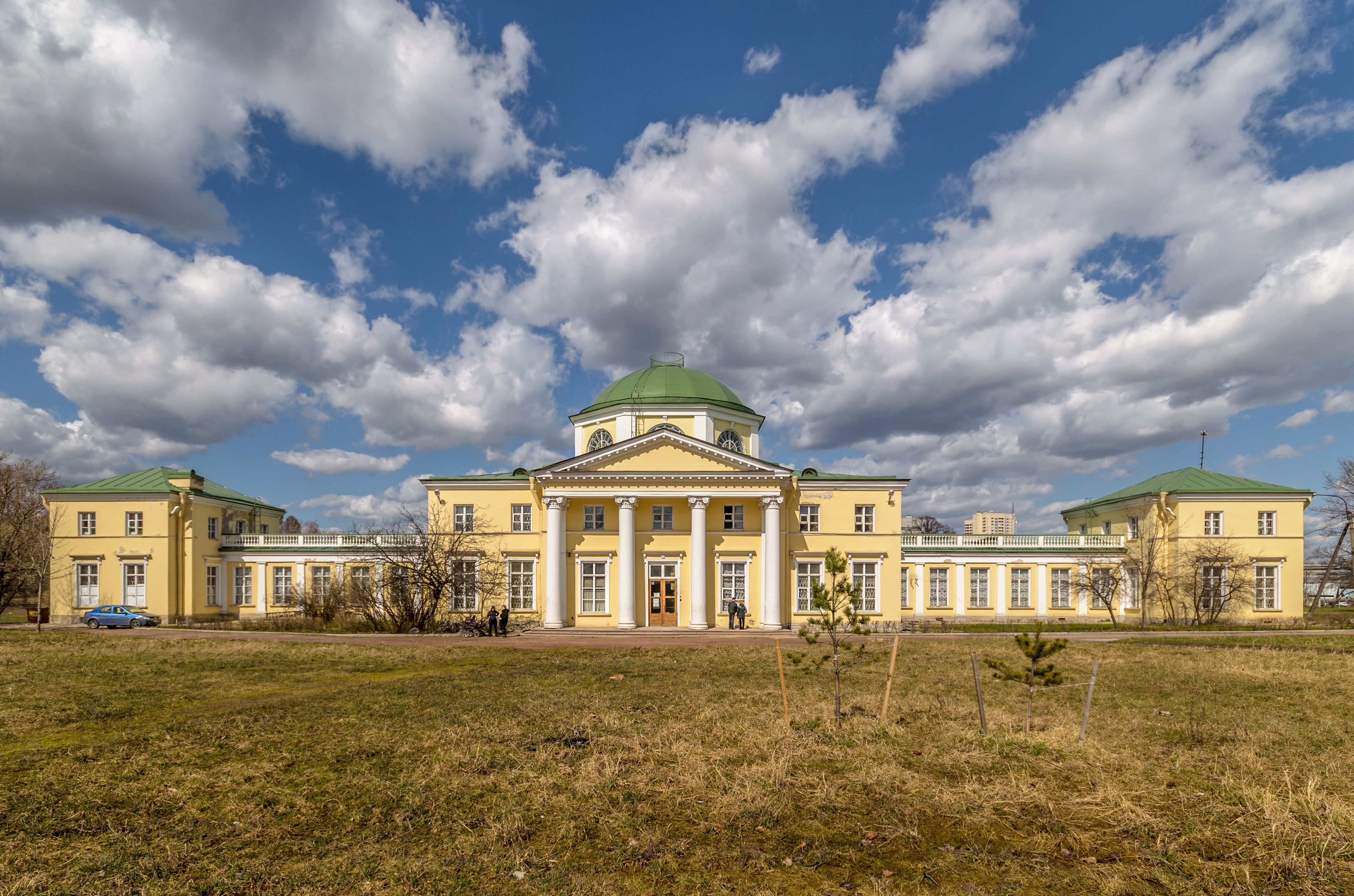 Alexandrino Manor, the estate of Ivan Chernyshyov, in Saint Petersburg.